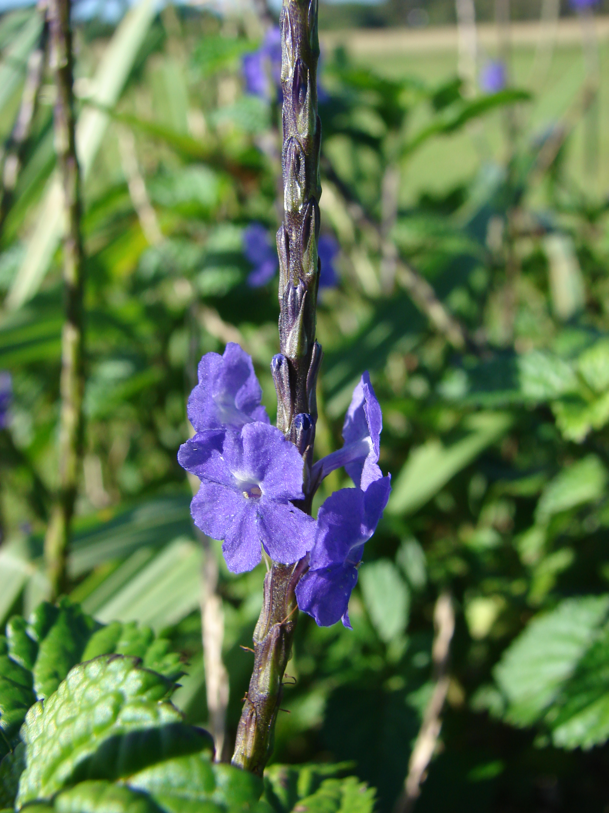 Stachytarpheta cayennensis (flowers). Location: Maui, West Kuiaha Rd Haiku